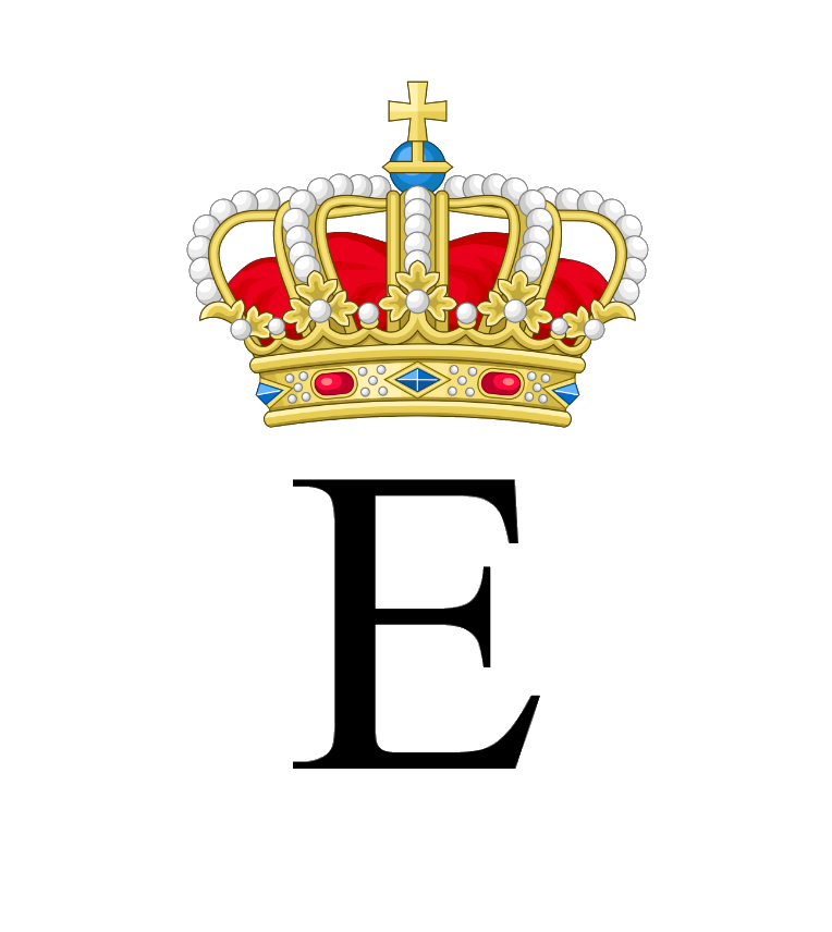 Royal Monogram of Princess Elisabeth of Belgium